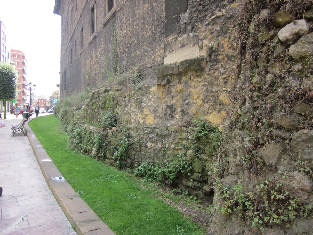 Oviedo City Walls. Probably this frangment belongs to the primitive walls of the city erected in IXth century.